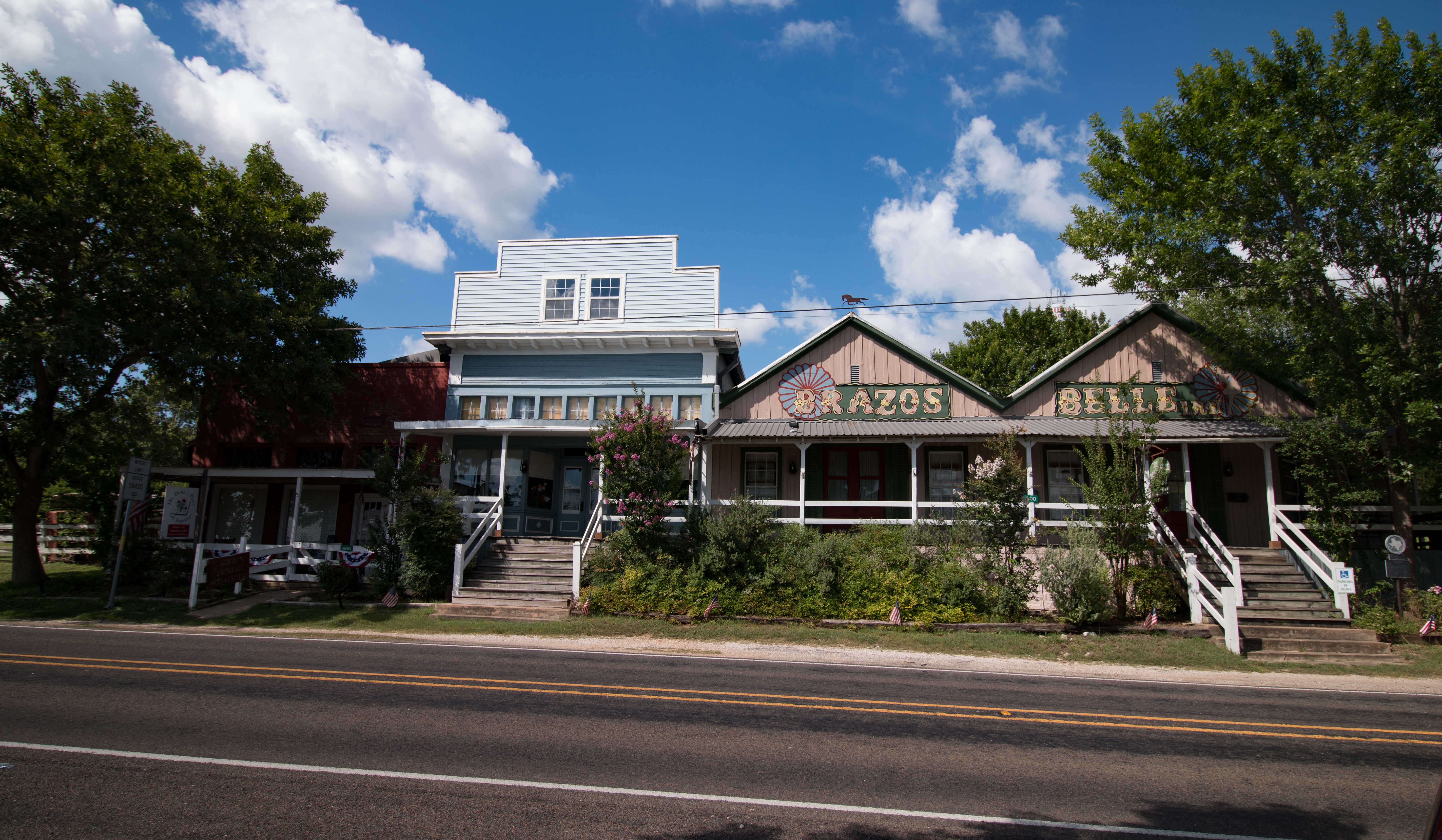 Burton Commercial Historic District